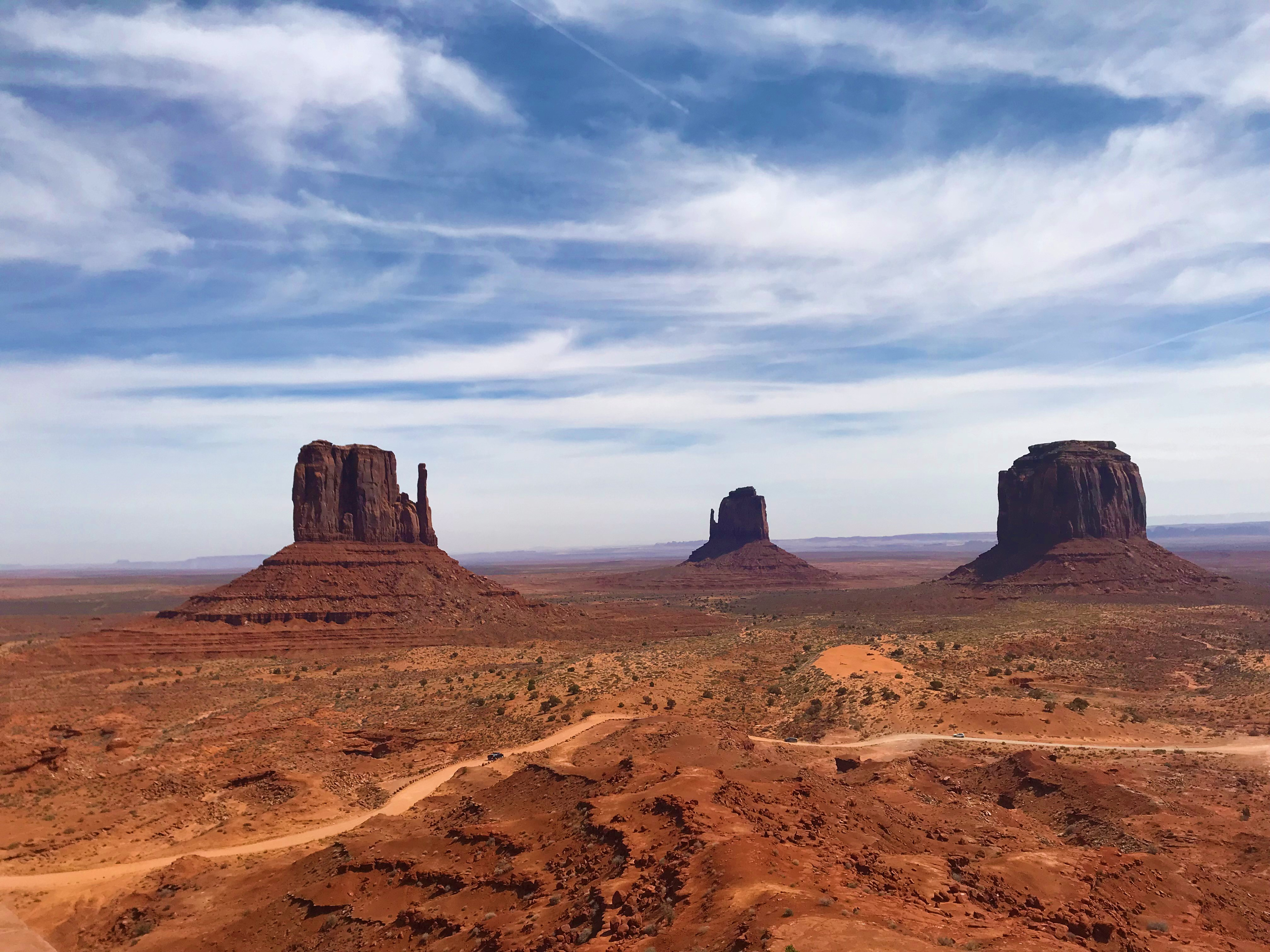 Photo of the West and East Mitten Buttes and Merrick Buttes at Monument Valley